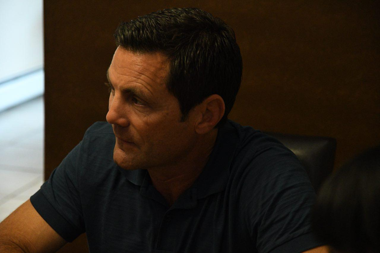 Tom Patti, student of Cus D`Amato, advisor of Mike Tyson